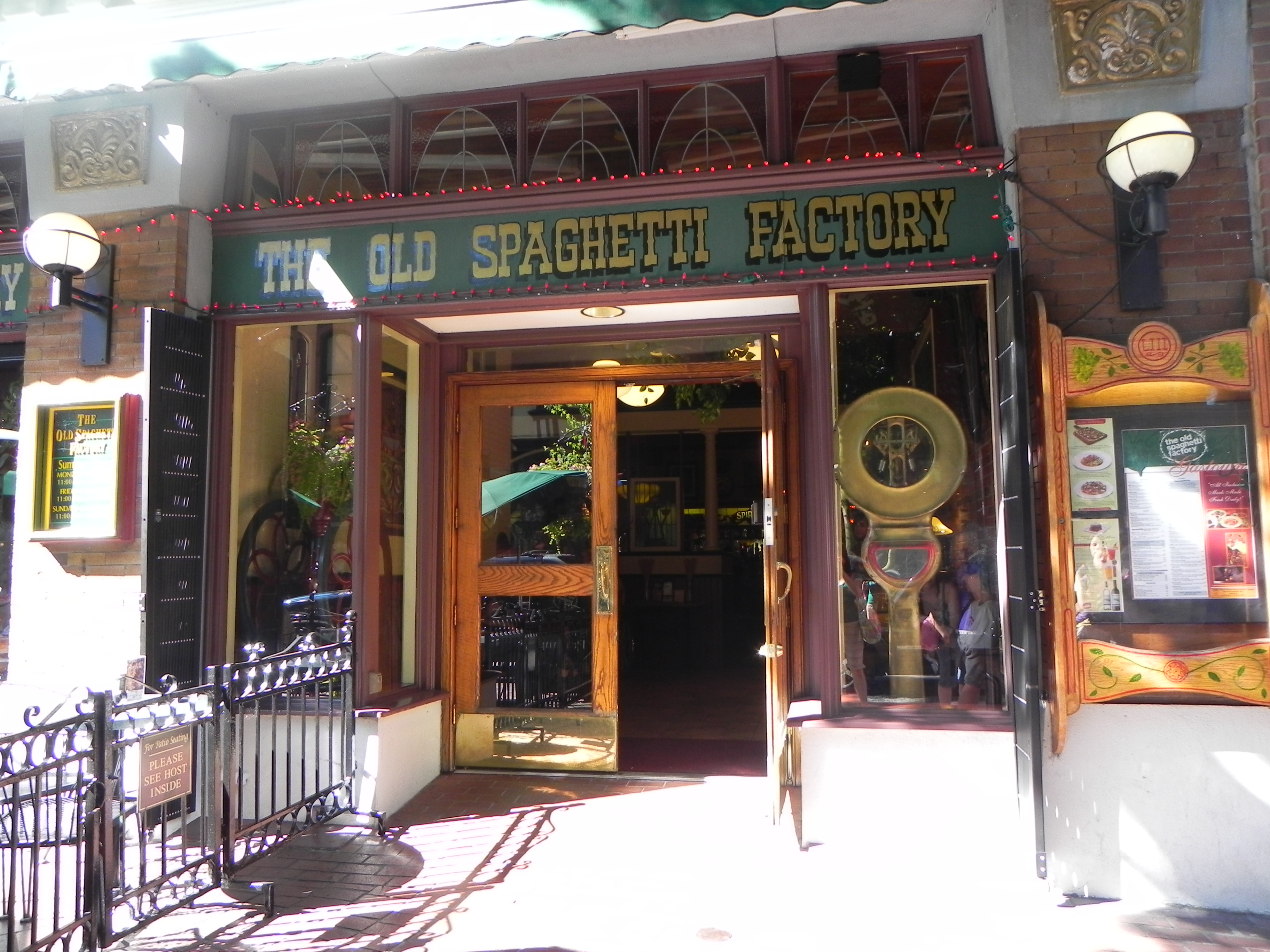 It a place where you can eat in Vancouver Canada